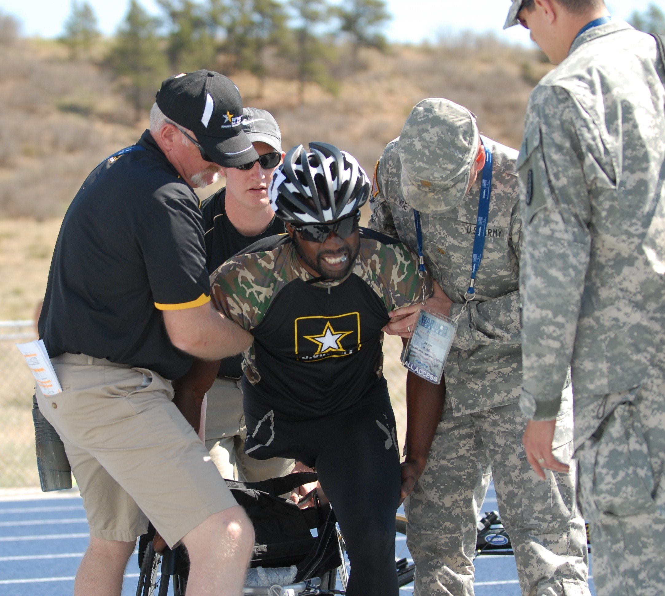 Retired Army Sgt. Anthony Robinson, a full-time student in therapeutic recreation, receives medical assistance after suffering a muscle cramp during the men’s 1,500 meter wheelchair race at the Warrior Games held at the U.S. Air Force Academy, Colorado Springs, Colo. , May 14, 2013. The Warrior Games is a weeklong annual event pitting 260 wounded, ill or injured service members from across the Department of Defense and United Kingdom against each other. The competitions will cover seven sports: archery, cycling, shooting, sitting-volleyball, swimming, track and field and wheelchair basketball. (U.S. Army photo by Staff Sgt. Brent Powell/Released)